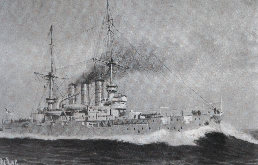 The German battleship SMS Preußen (launched 1903) painted by Christopher Rave.